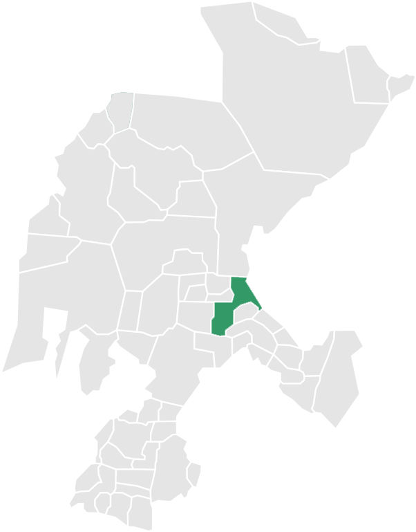 Map of the Municipality of Guadalupe in Zacatecas, México.